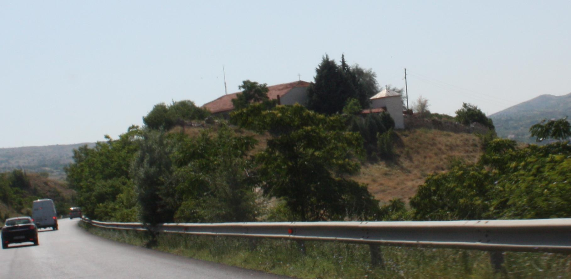 St. Nicholas Churc in Bašino Selo near Veles, Macedonia